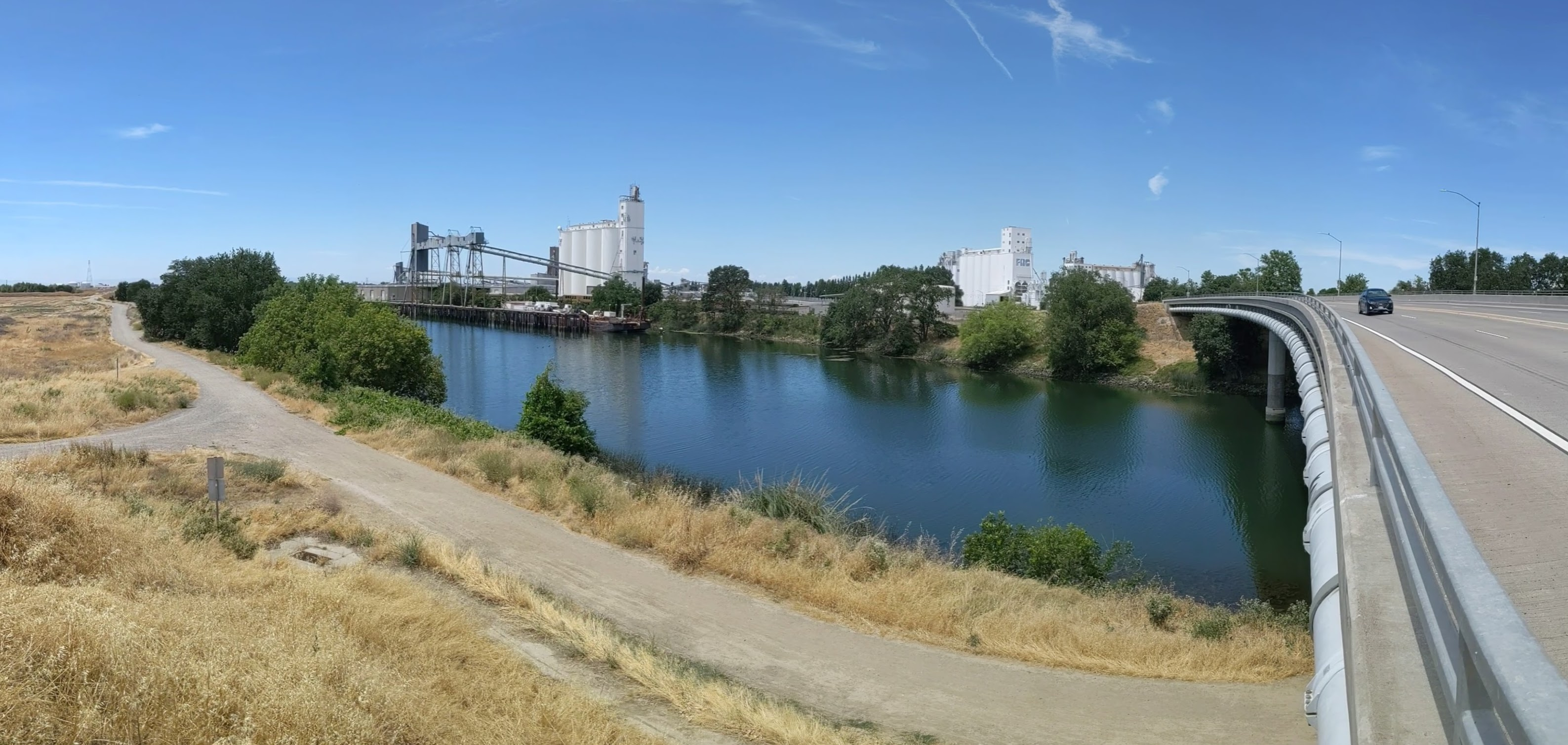 Port of West Sacramento, on Sacramento Deep Water Ship Channel, West Sacramento, California, as viewed from the Daniel C. Palamidessi Bridge